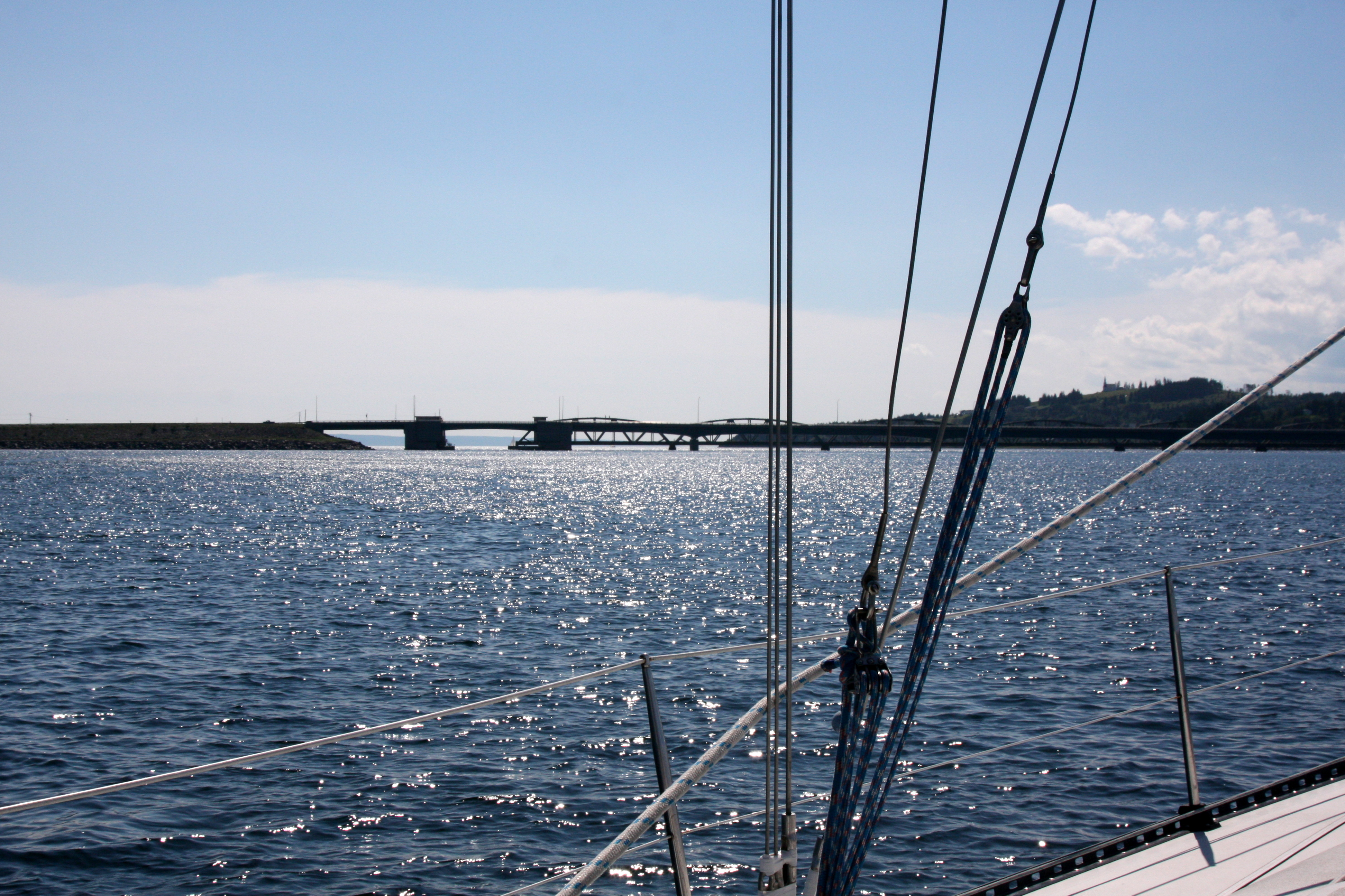 The Barra Strait is a 2.2 km (0.6 nautical mile) wide channel located the Canadian province of Nova Scotia. It connects the northern and southern basins of Bras d'Or Lake, an inland saltwater body that dominates the centre of Cape Breton Island. The border between two of Cape Breton Island's counties runs through the strait; the community of Grand Narrows, in Cape Breton County, is situated on the eastern shore while the community of Iona, in Victoria County is situated on the western shore.